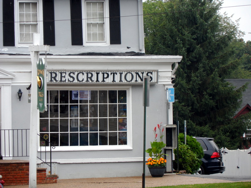 Mendham Historic District This photo was taken in the Mendham Historic District.